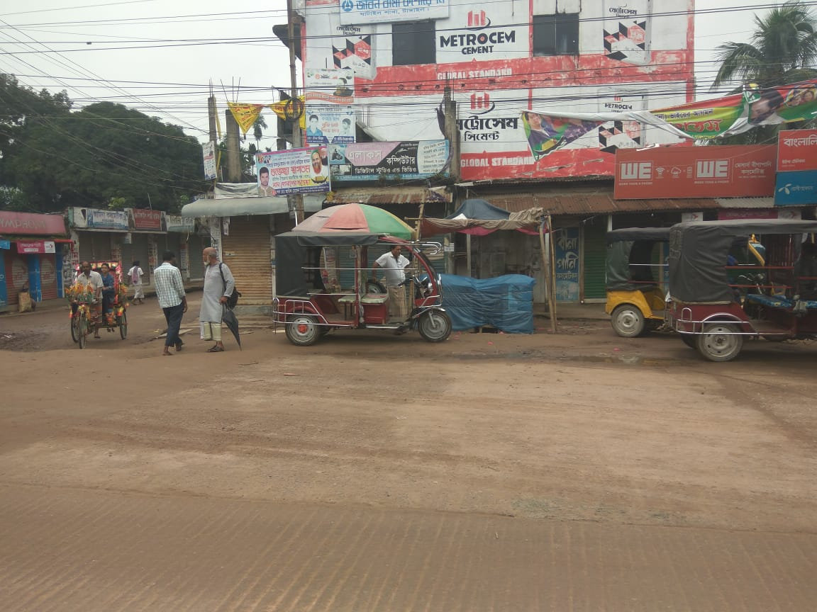 Ghatail Upazila